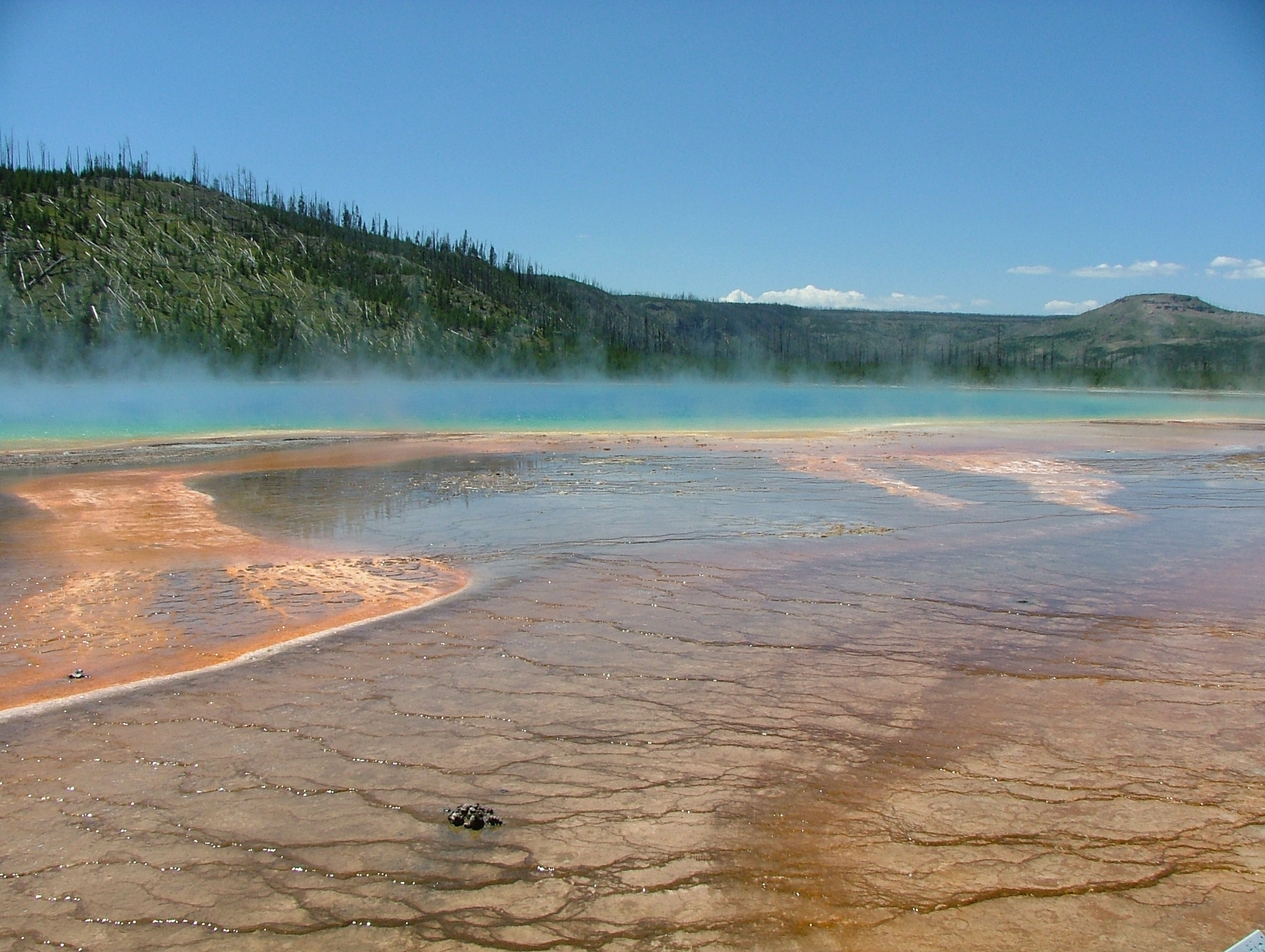 Grand Prismatic Spring in the Midway Geyser Basin of Yellowstone National Park.